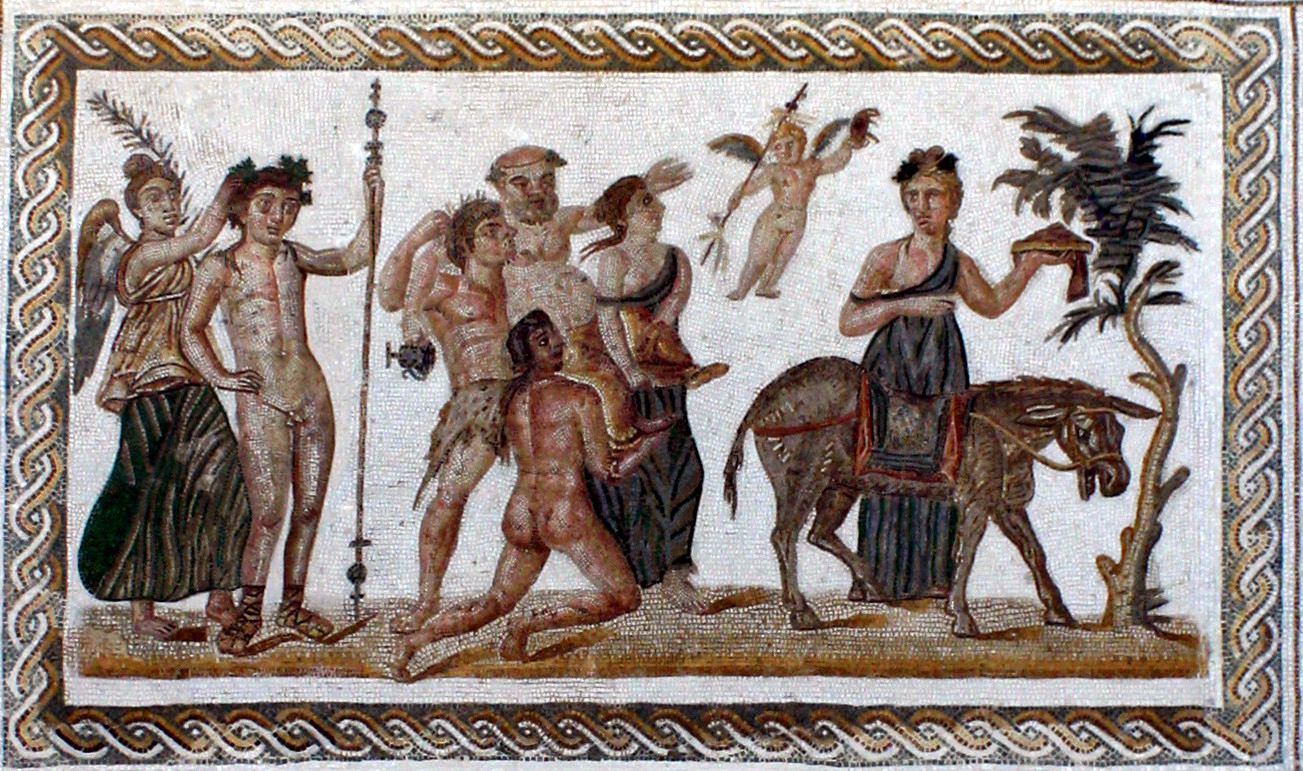 Detail from File:Museum El Jem - Mosaic Silen with ass.jpg